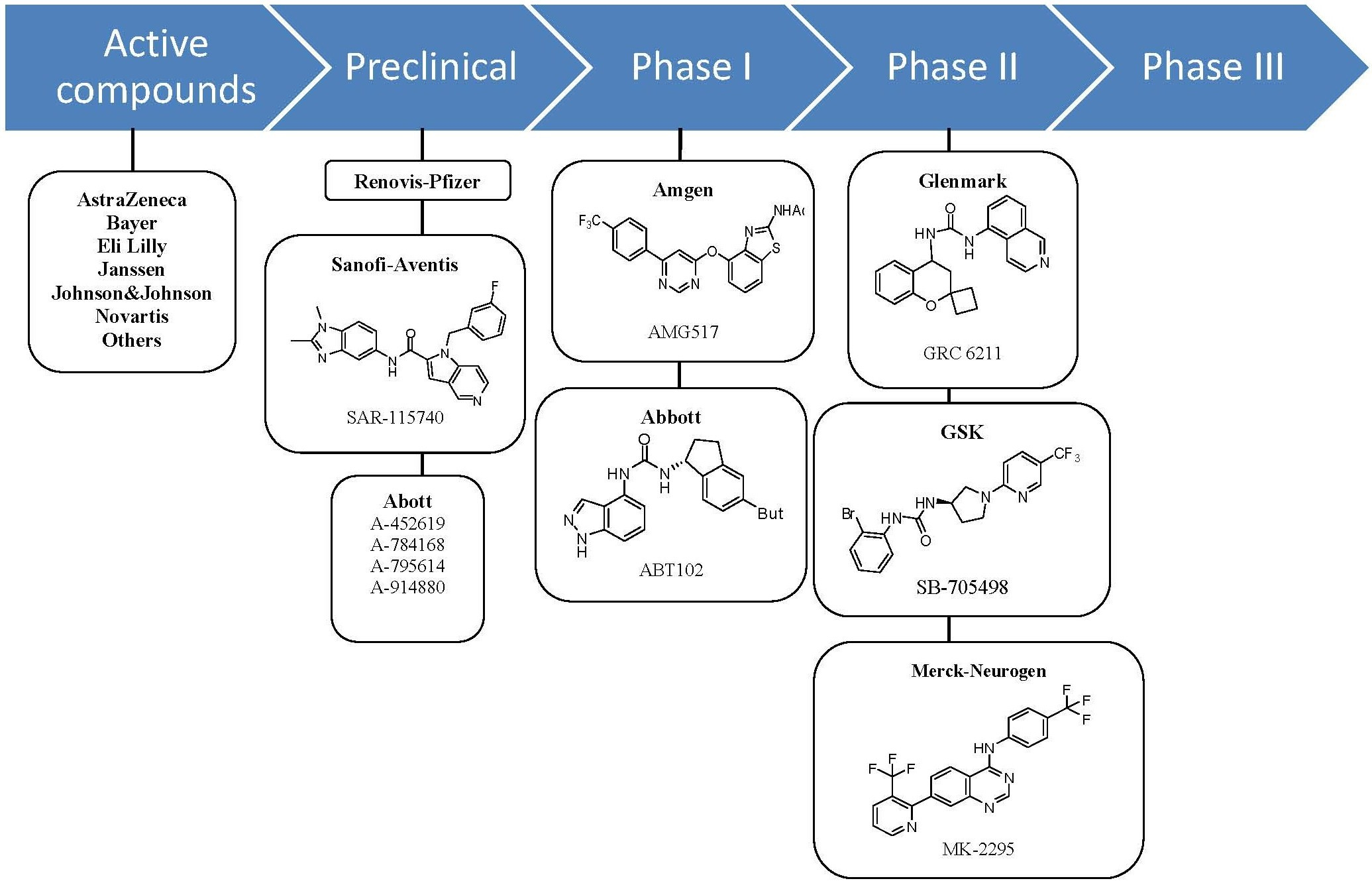 Flow chart of TRPV1 antagonists in clinical development